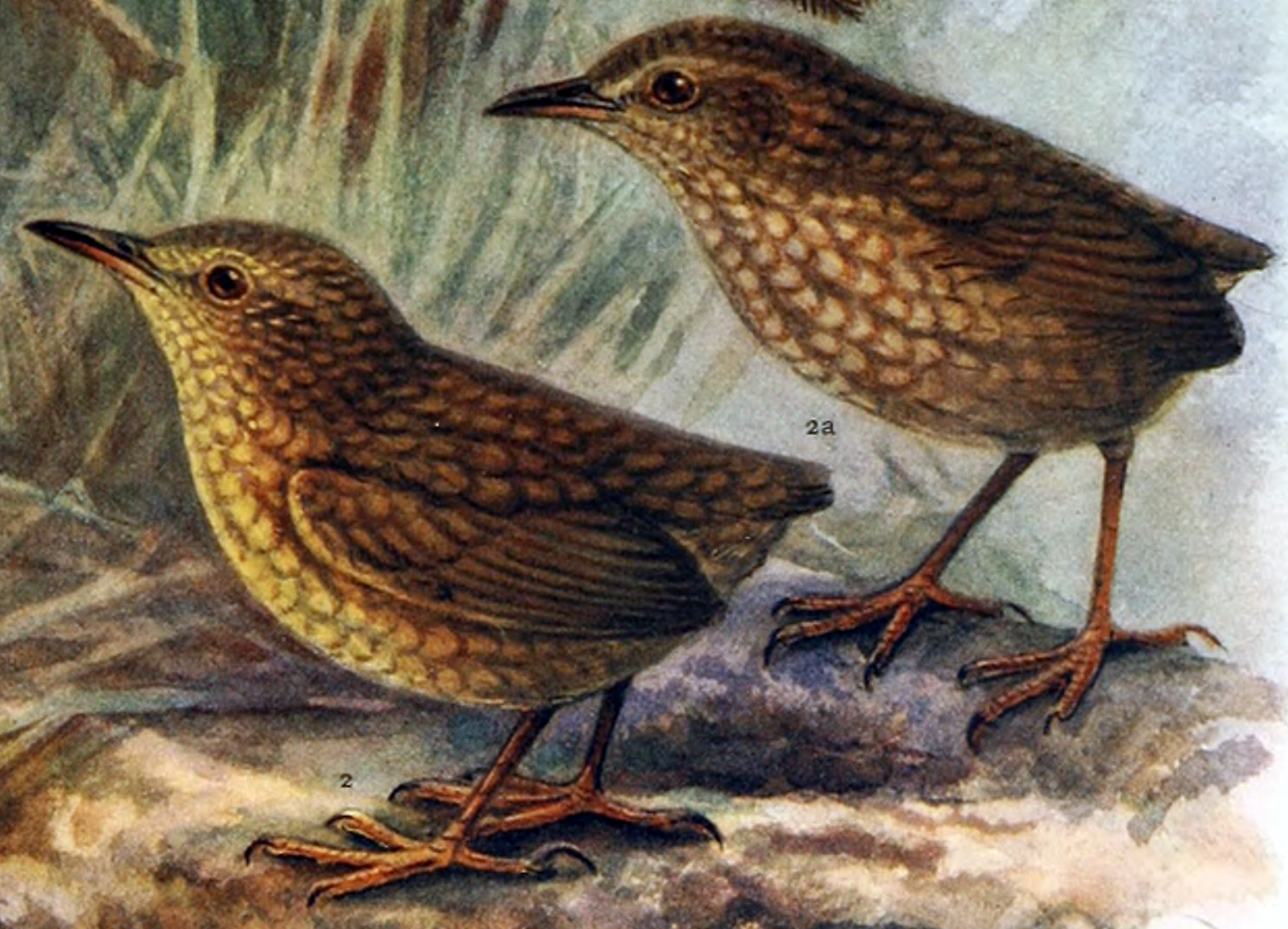 Traversia lyalli (=Xenicus lyalli)